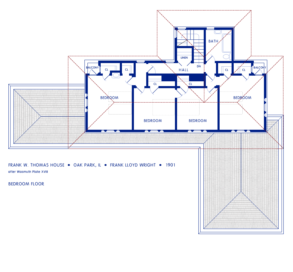 Plan of the upper floor of the Frank W. Thomas residence, Oak Park IL, designed by Frank Lloyd Wright, 1901. After Wasmuth, Plate XVII.